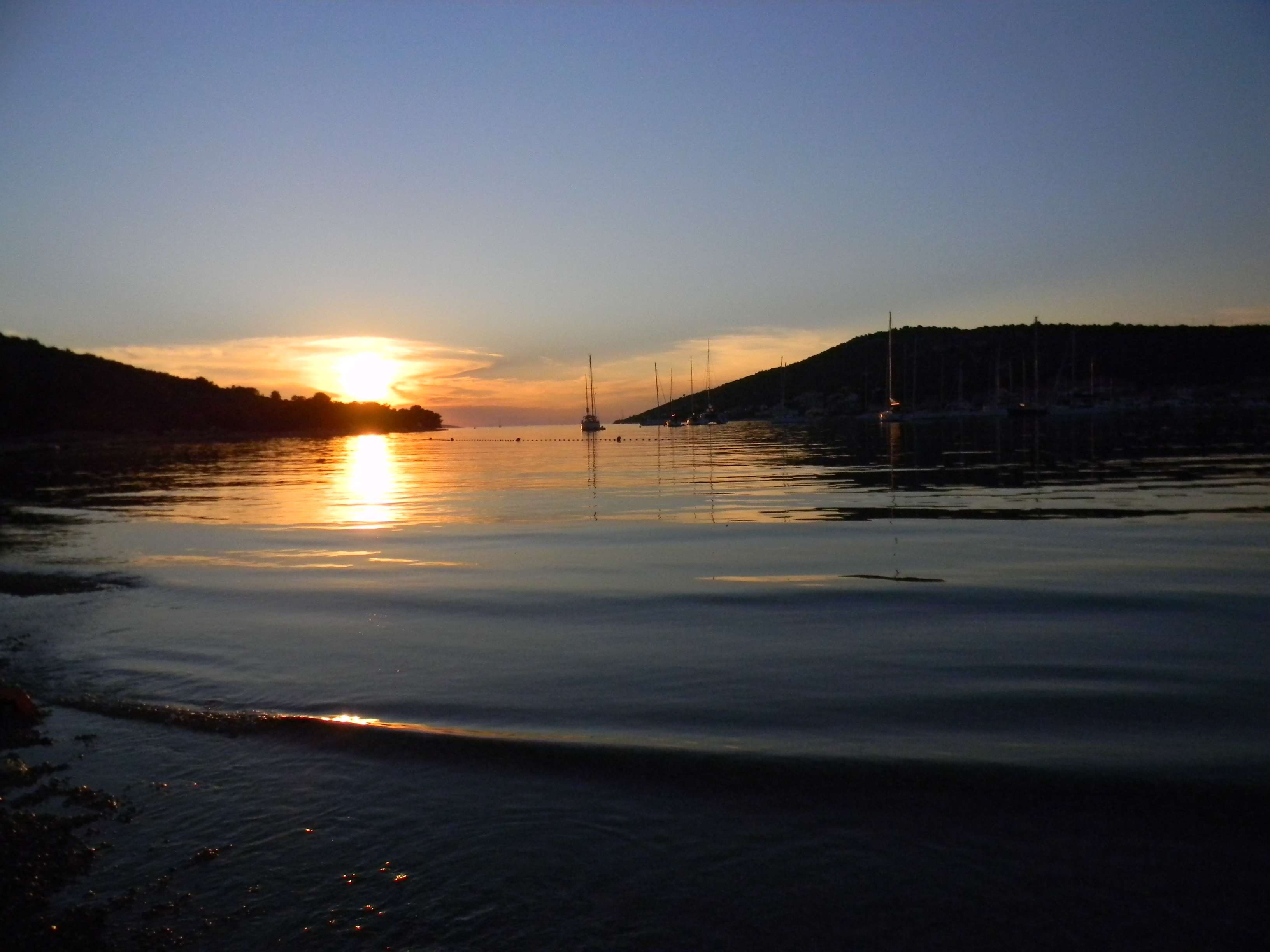 Kaprije - sundowner time - view direktion nationalpark Kornati